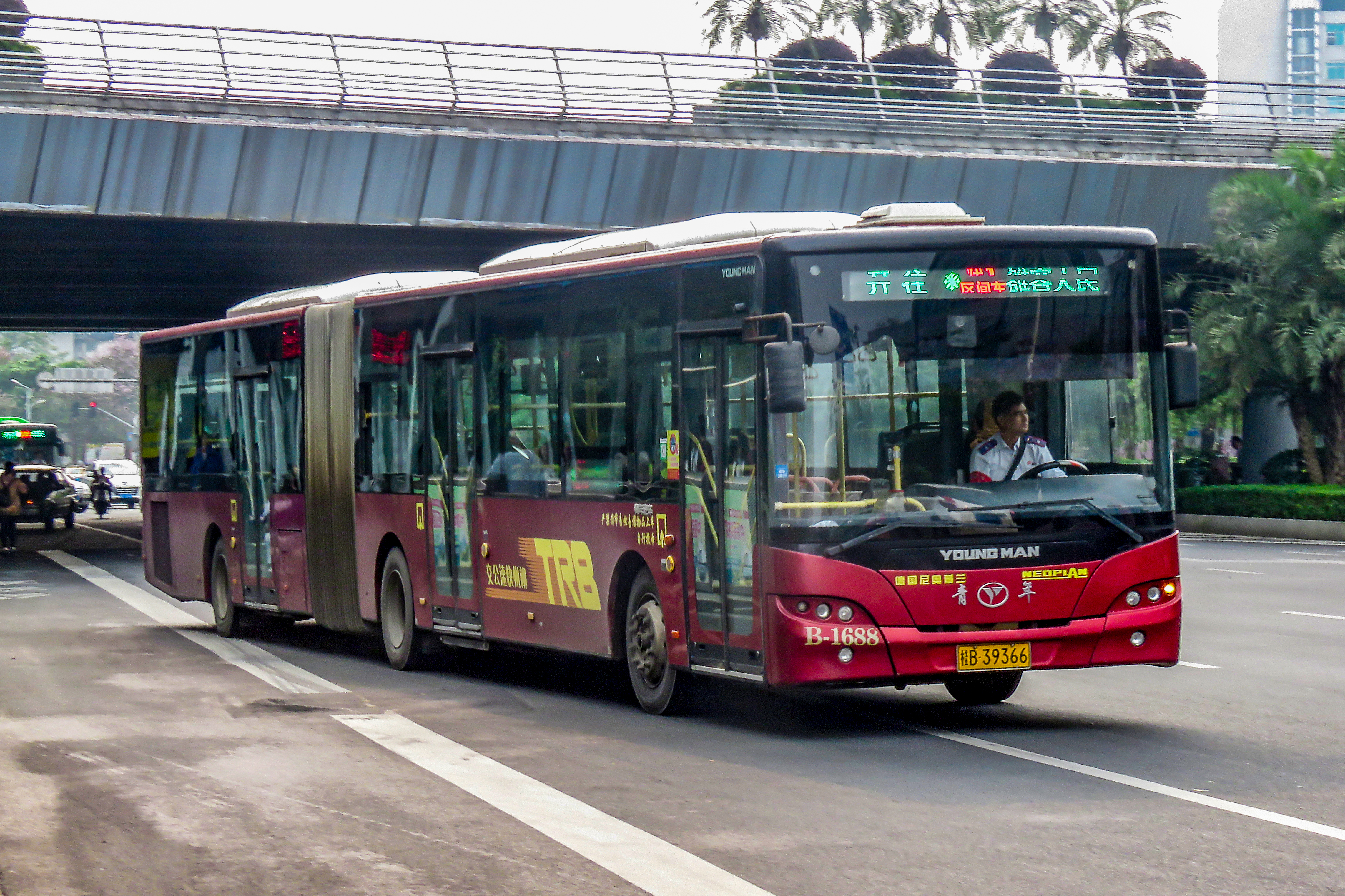 B-1688 is not used by any aircraft - only used by this JNP6180G. In fact, this is the short-haul version of BRT1 because these articulated buses can't turn at the railway station!